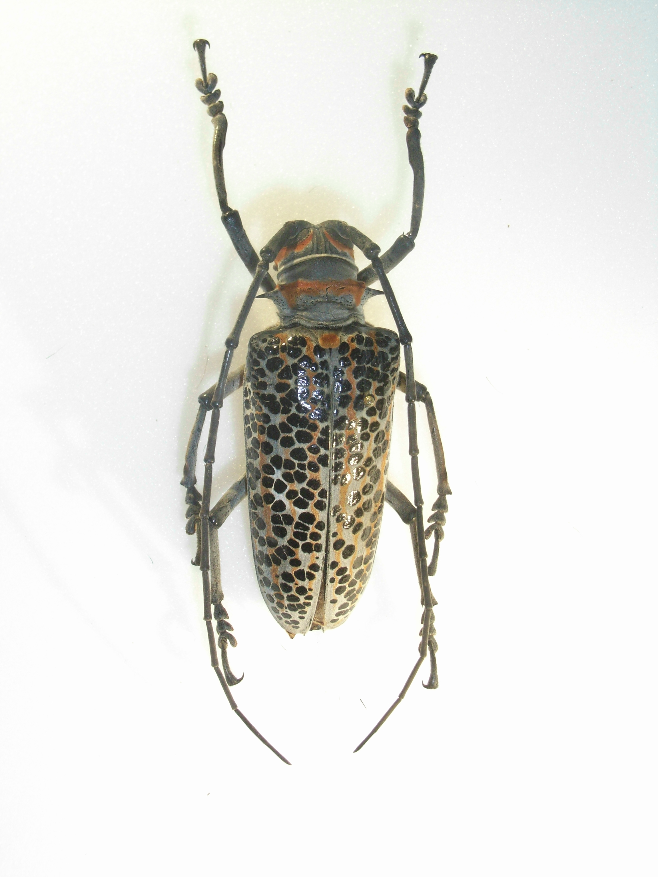 Rosenbergia rufolineata von Breuning, 1948 Ex coll. Felix Stumpe